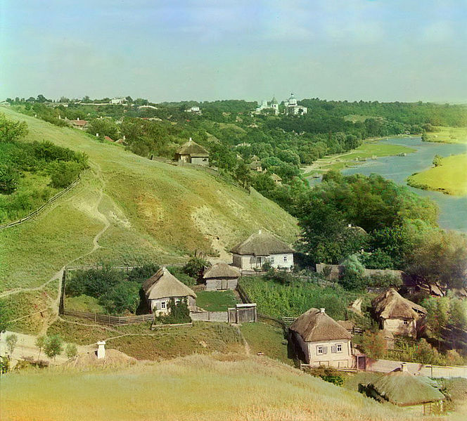 Putyvl, Ukraine. In the distance, the Molchansky Monastery. On the right, the river Seim. Digital color composite made for the Library by Blaise Agüera y Arcas, 2004.